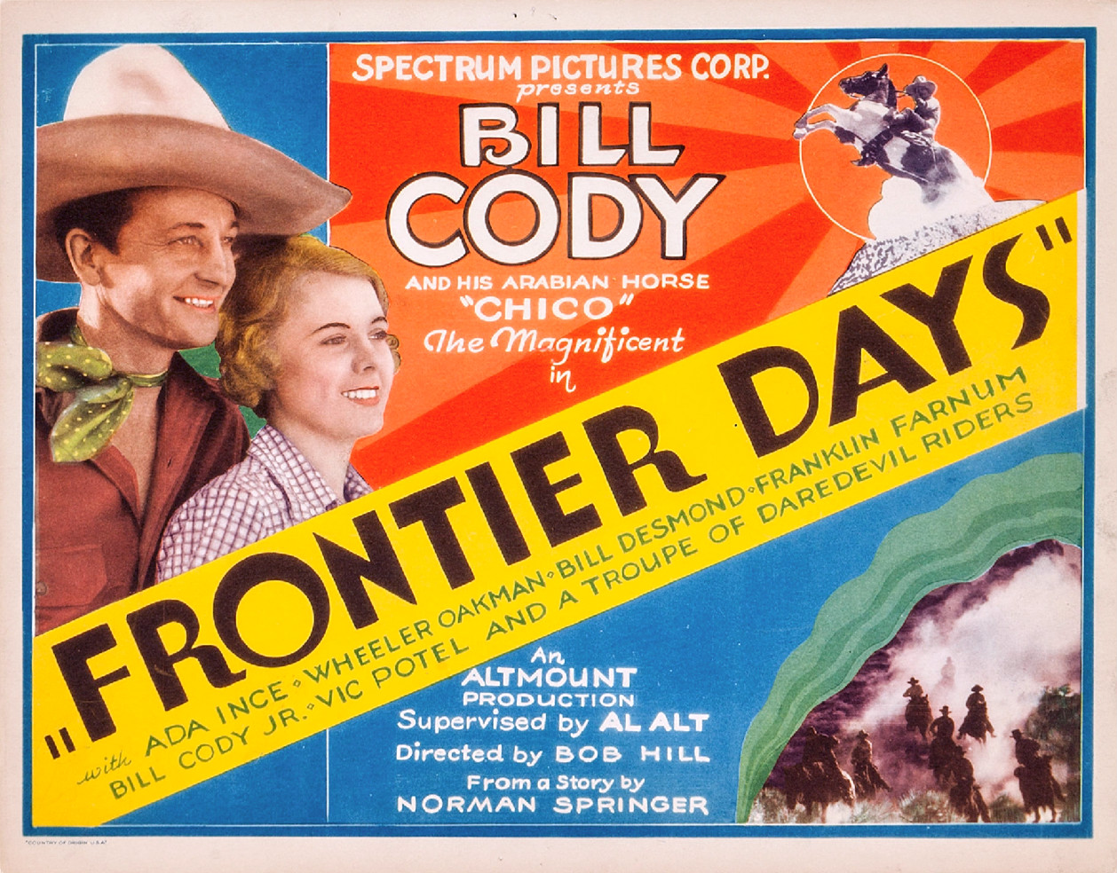 Lobby card for the American western film Frontier Days (1934) with Bill Cody, Ada Ince, and Chico. The item has no copyright markings on it as can be seen in the links above. At bottom left is Country of origin USA.